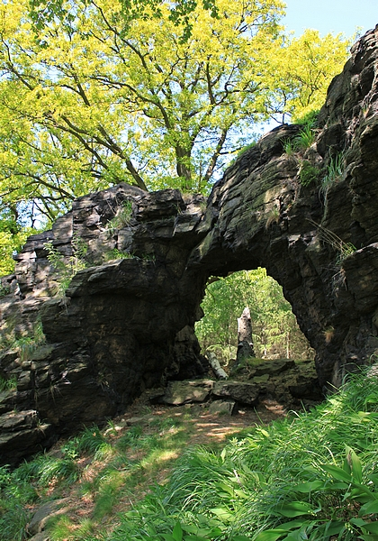 This image shows the "Hohler Stein", a Natural arch (height 3 m, width 4 m) made of gneiss near Bad Gottleuba.